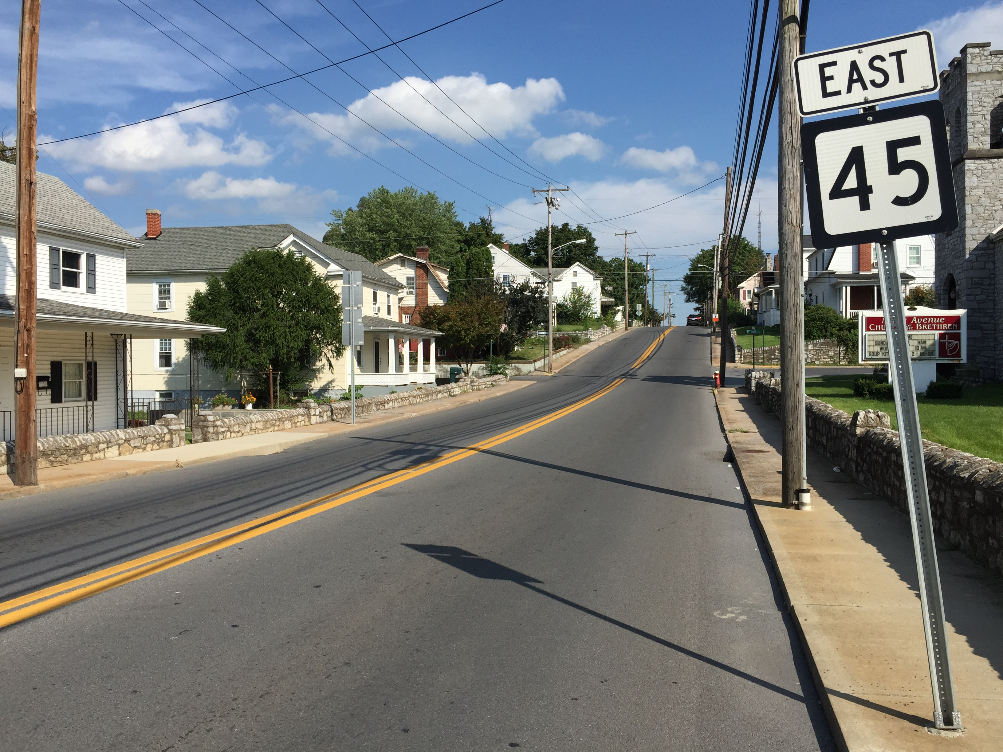 View east along West Virginia State Route 45 (Moler Avenue) between U.S. Route 11 and West Virginia State Route 9 (Queen Street) and 3rd Street in Martinsburg, Berkeley County, West Virginia